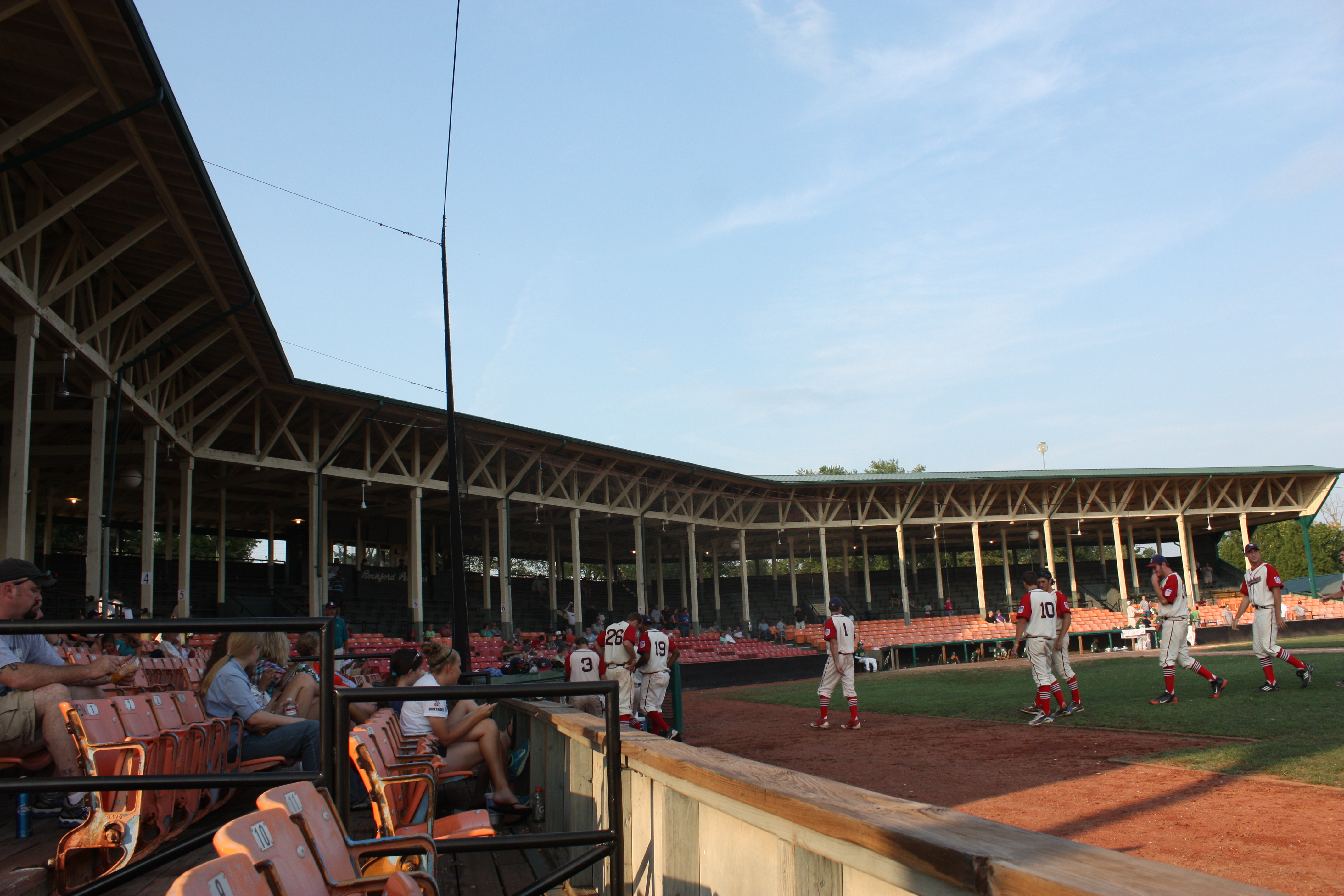 League Stadium in Huntingburg Indiana. Home of the Dubois County Bombers, it was the filming location for 1991 film, "A League of Their Own" and the 1995 film, "Soul of the Game". The ballpark was rebuilt for filming "A League of Their Own" and still features artwork and stadium advertising created for the film. Here, the "Rockford Peaches" were a women's baseball team featured in the film.